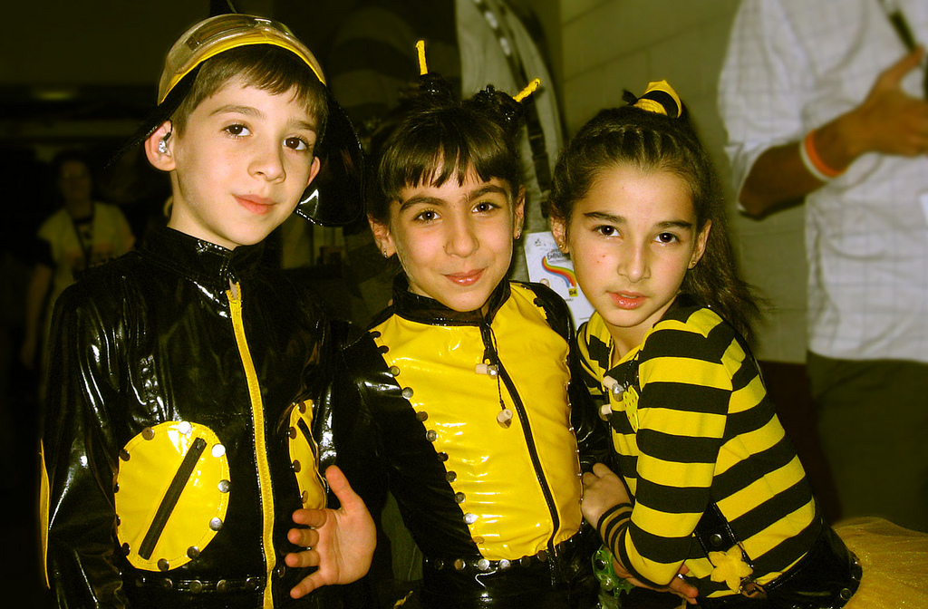 Limassol / Lemesos. Junior Eurovision Song Contest 2008. The Winner (Bzikebi, Georgia)